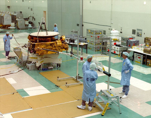 Original NASA release to the picture: The radial boom on Ulysses is extended in flight configuration in Hangar AO at the Cape Canaveral Air Force Station while Ulysses undergoes checks prior to being moved to the Kennedy Space Center